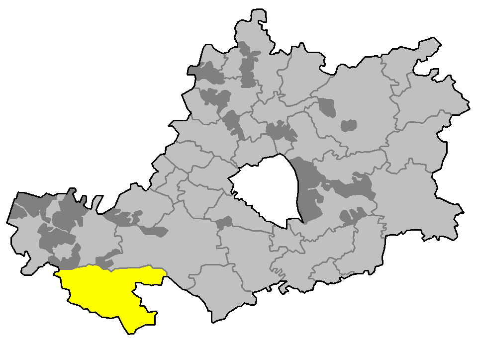 locator map of communities in the district (Landkreis) of Bamberg in Bavaria, Germany